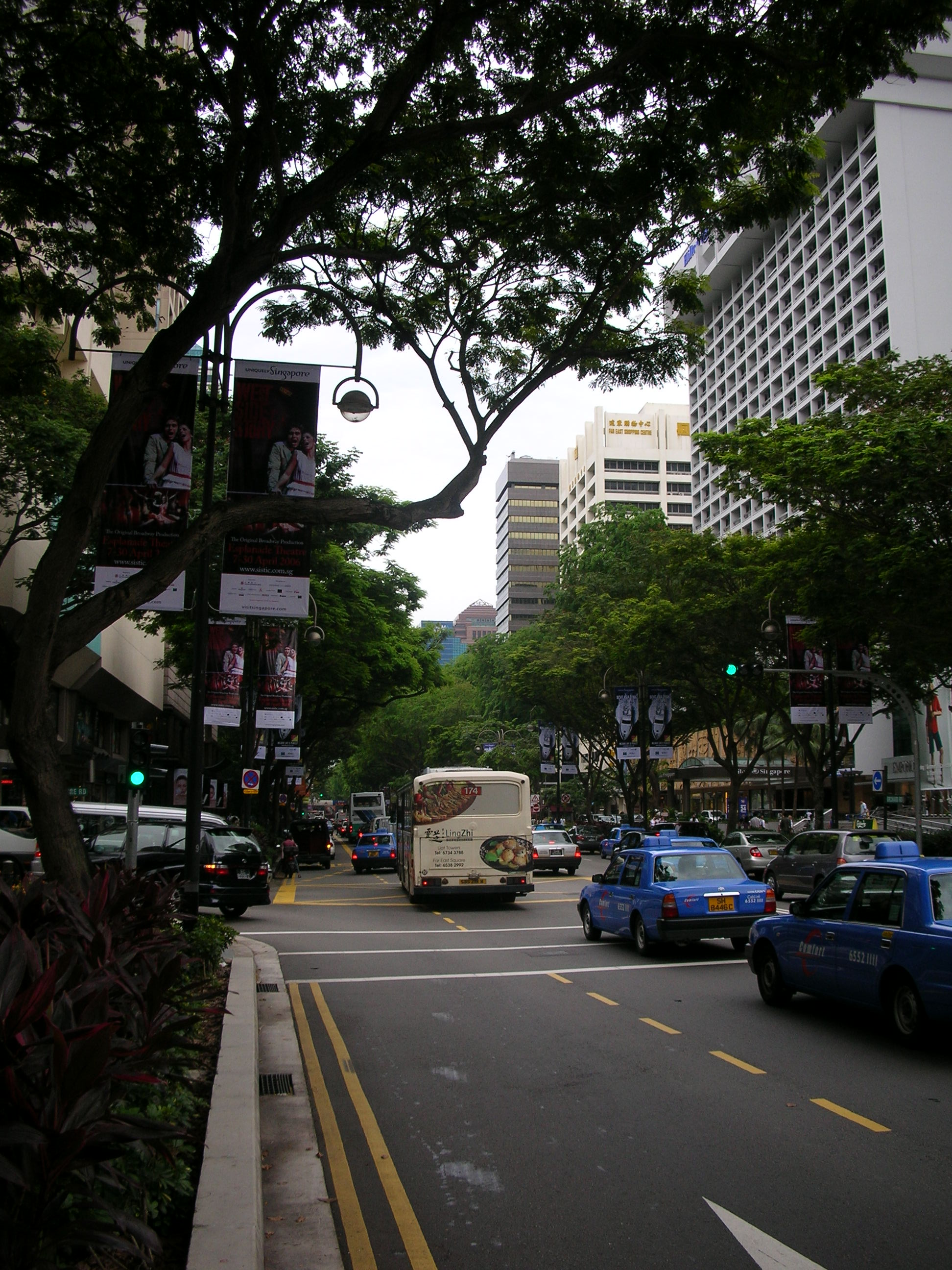 Orchard Road in Singapore.